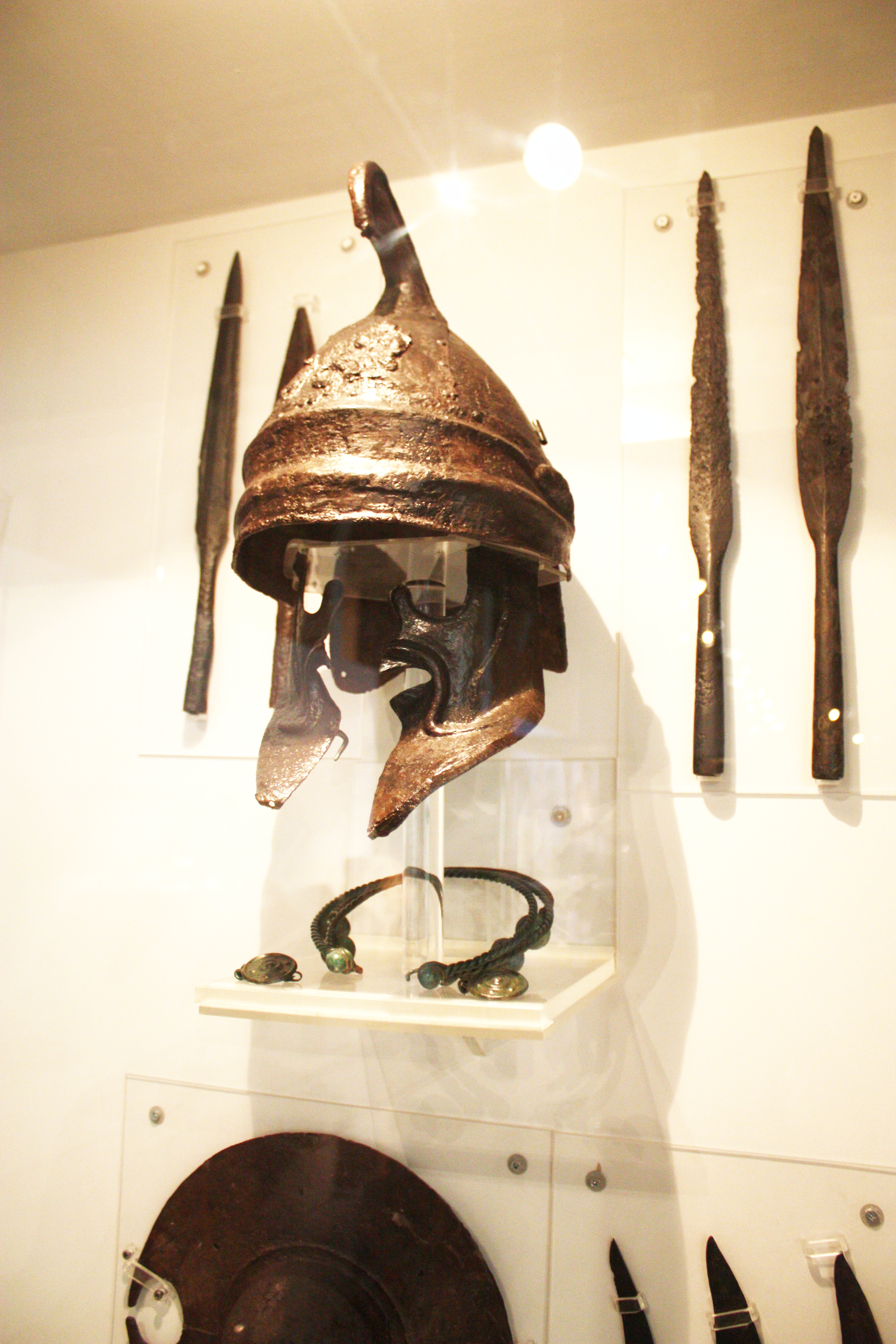 National History Museum, Bulgaria, Sofia, kvartal Bojana